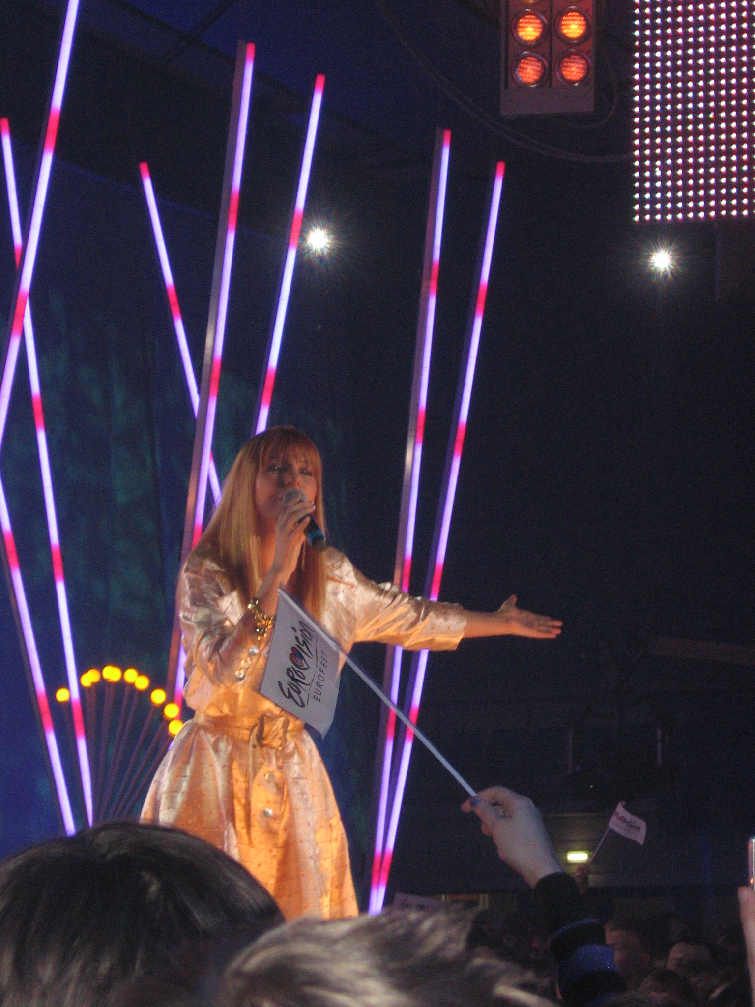 Natalia Podolskaya